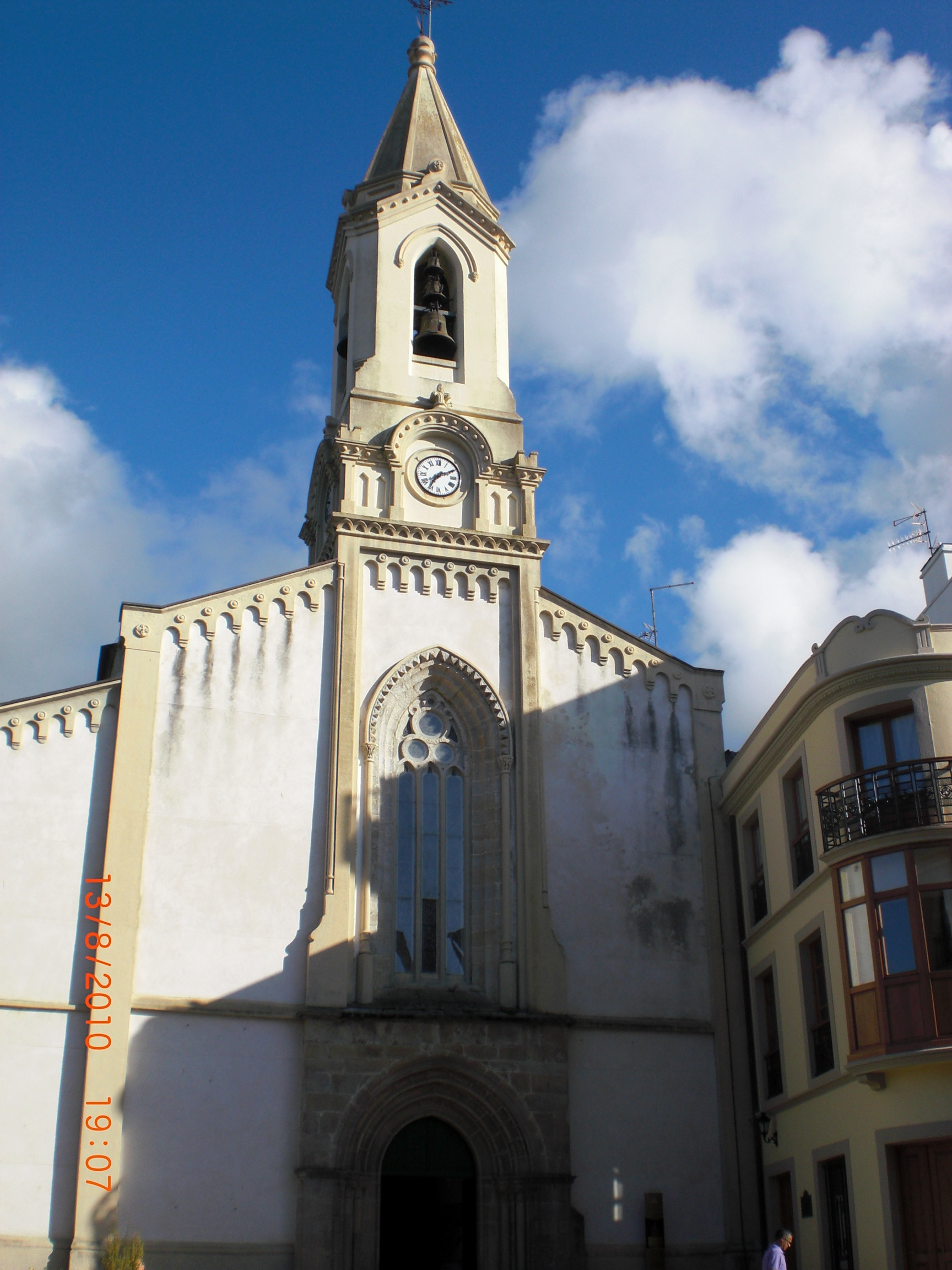 Santa Maria do Campo Church downtown Ribadeo, Spain.